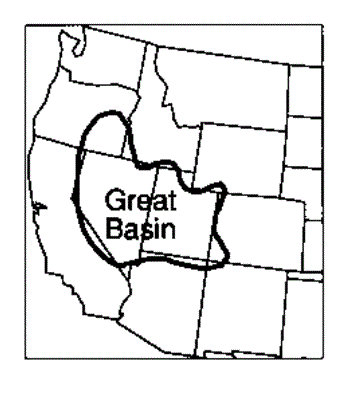 Map showing the extent of the Great Basin in reference to feral horse herds found within